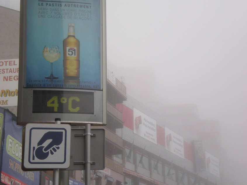 El Pas de la Casa, Encamp, Andorra. (6:50 p.m.)